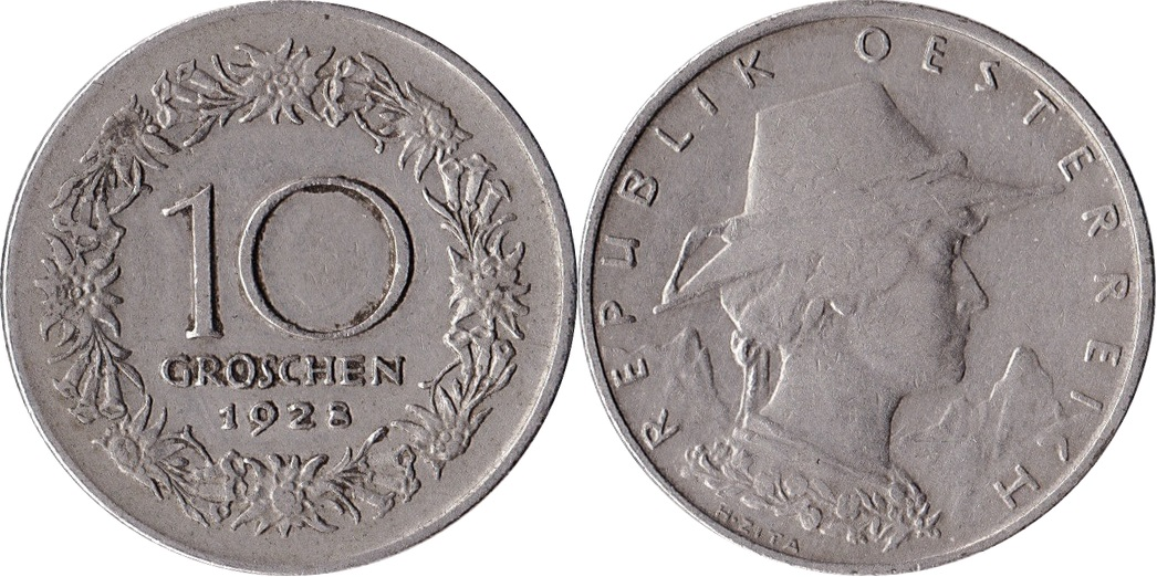 Coin from Austria - 10 groschen, 1928